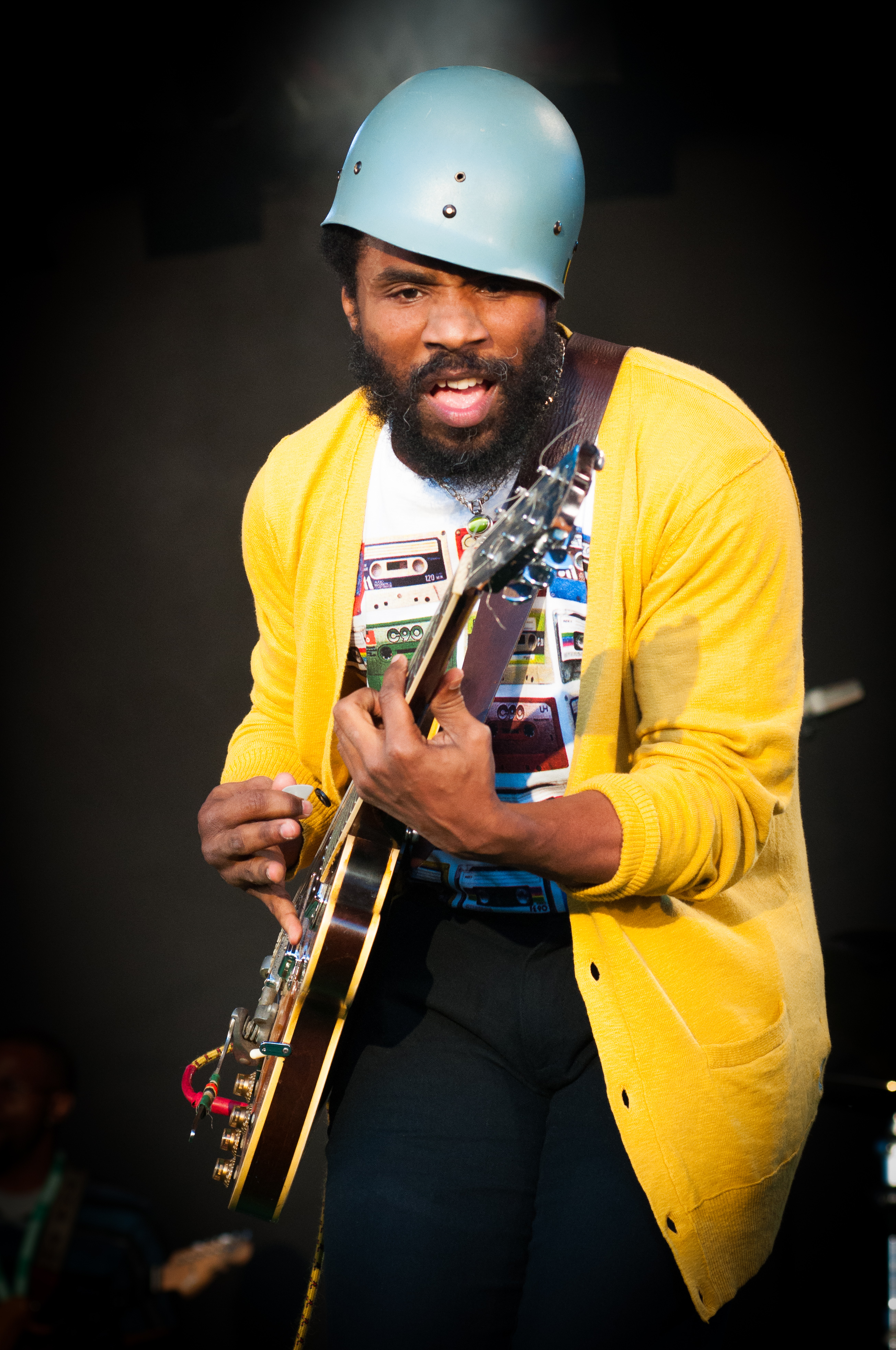 American musician Cody ChesnuTT performing at the 2011 Ilosaarirock festival in Joensuu, Finland.